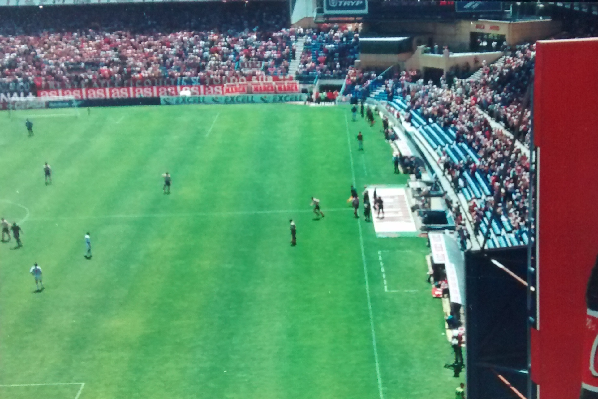 First offical matcho of Fernando Torres, 27th May 2001. Atlético 1:0 CD Leganés